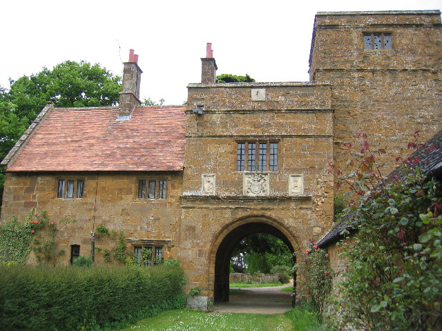 Wormleighton Manor The imposing gateway to this medieval manor.